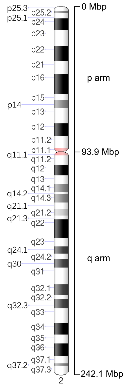 Ideogram of human chromosome 2. G-band, 550 bphs (bands per haploid set). Black and gray: Giemsa positive. Red: Centromere. Light blue: Variable region. Dark blue: Stalk. Mbp: Mega base pairs.